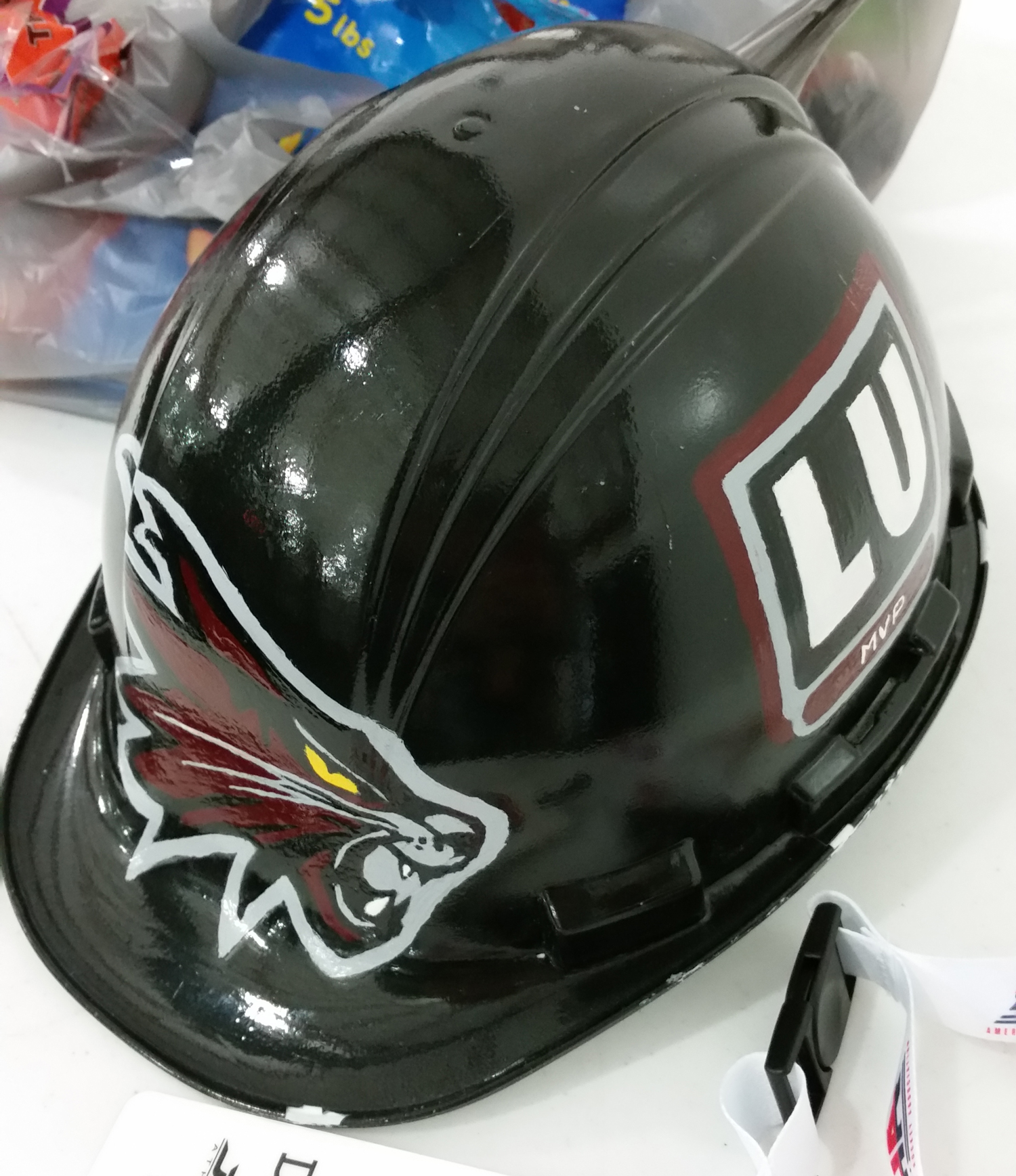 The hard hat given out by the Lindenwood-Belleville women's hockey team to the MVP of each game.